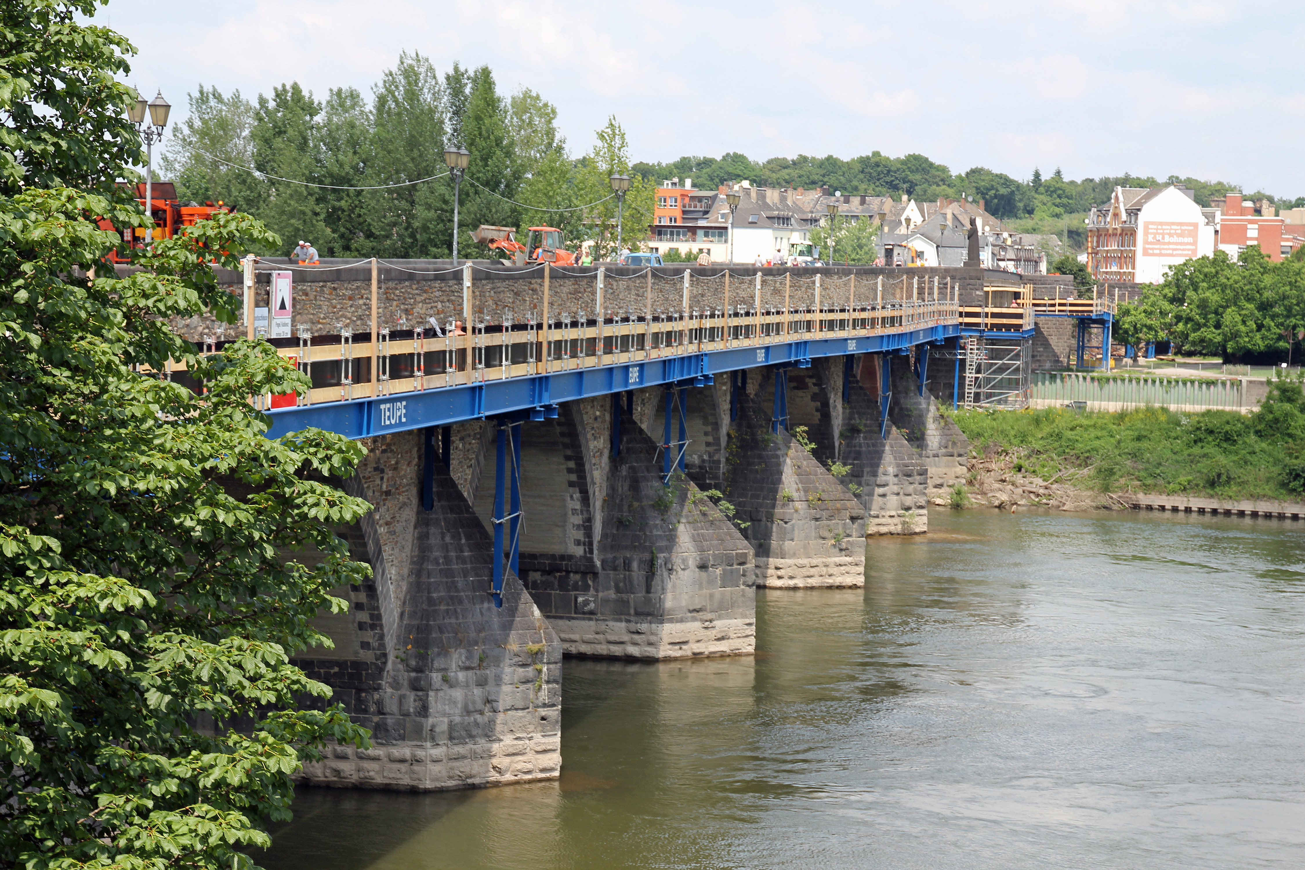 Balduinbrücke in Koblenz